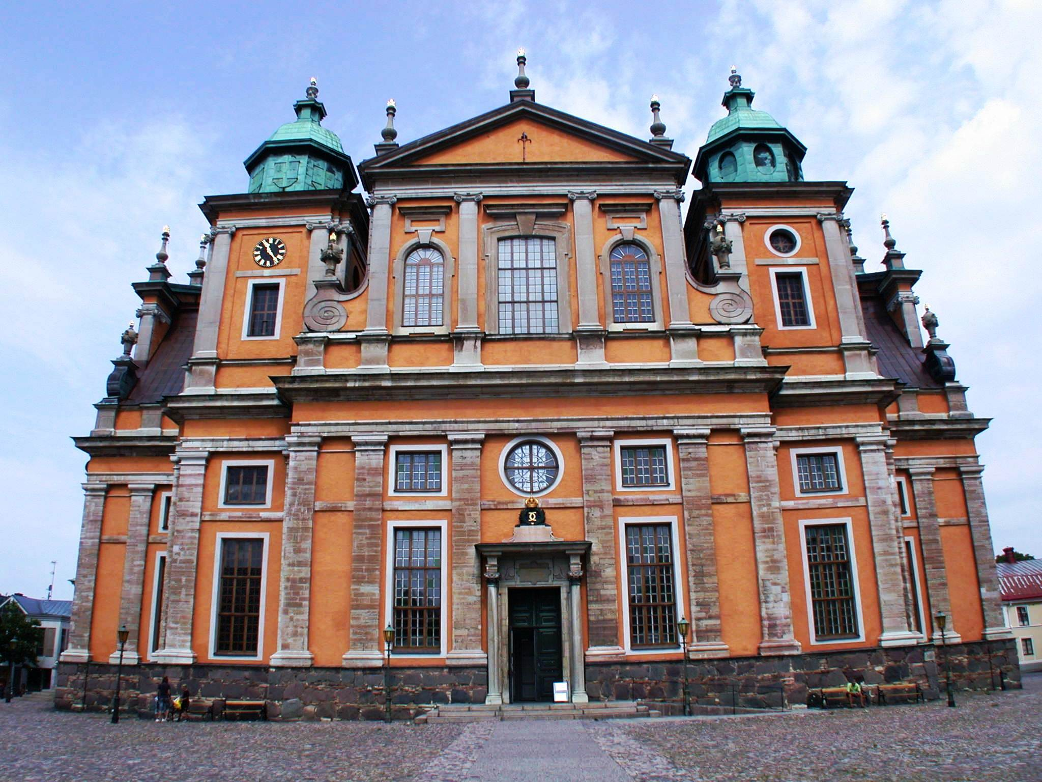 Kalmar Cathedral, Kalmar, Sweden.